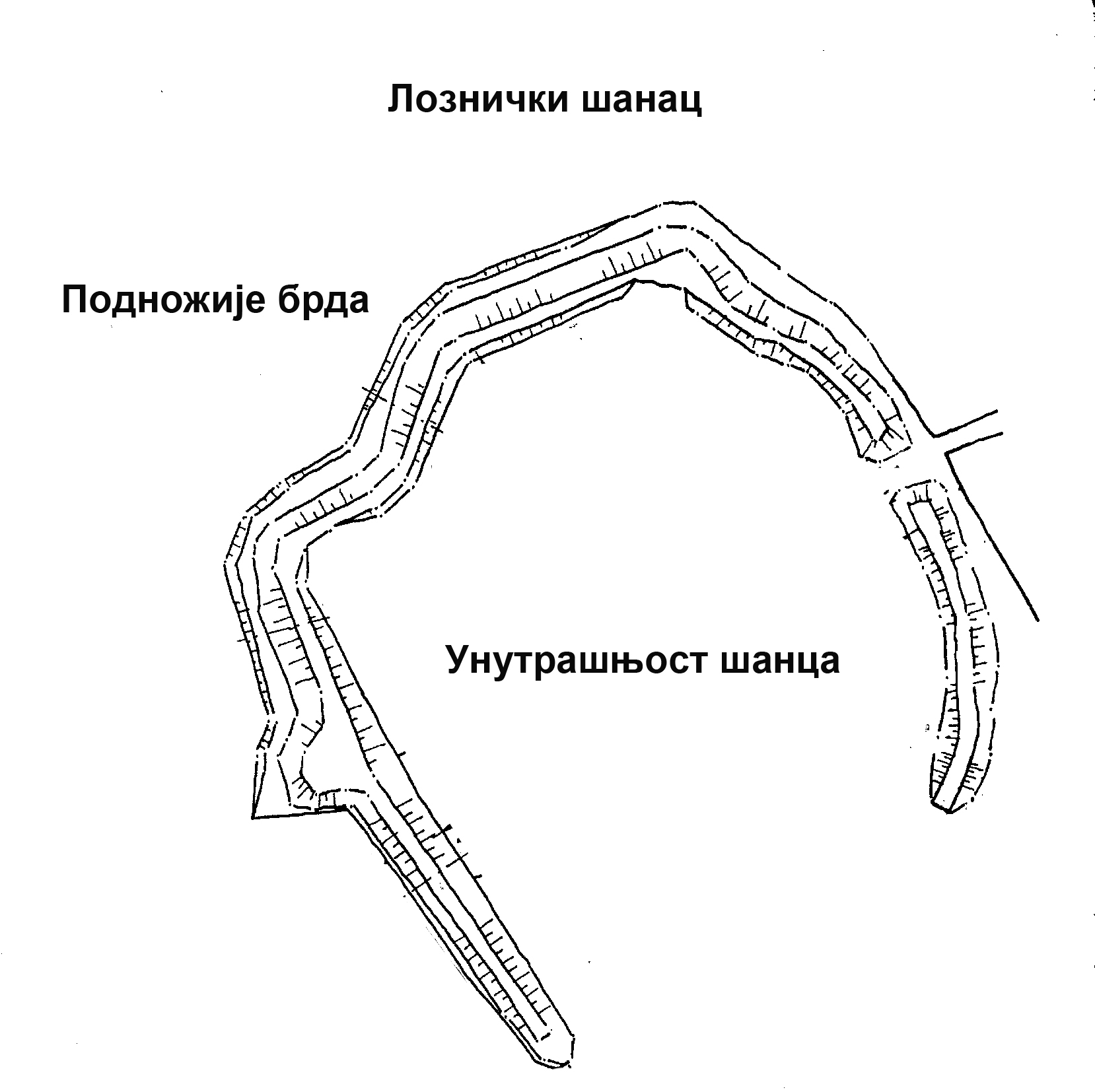 The sconce fortress used during battle of Loznica